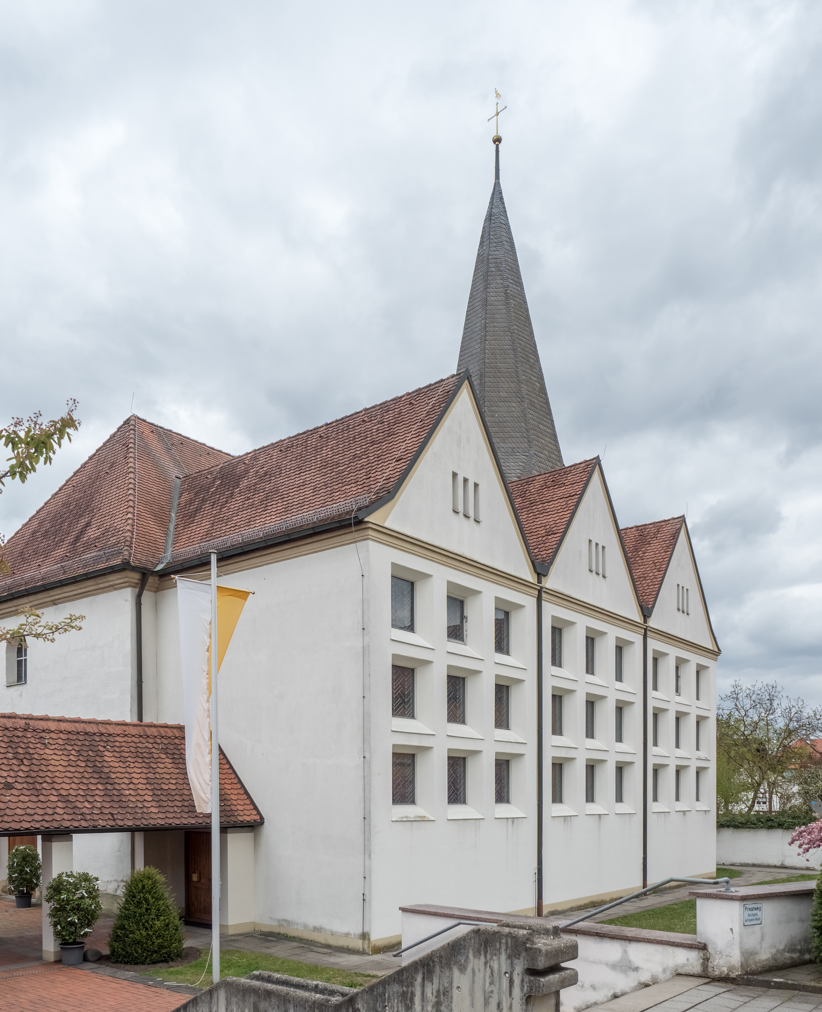 Catholic parish church of St. John in Frensdorf